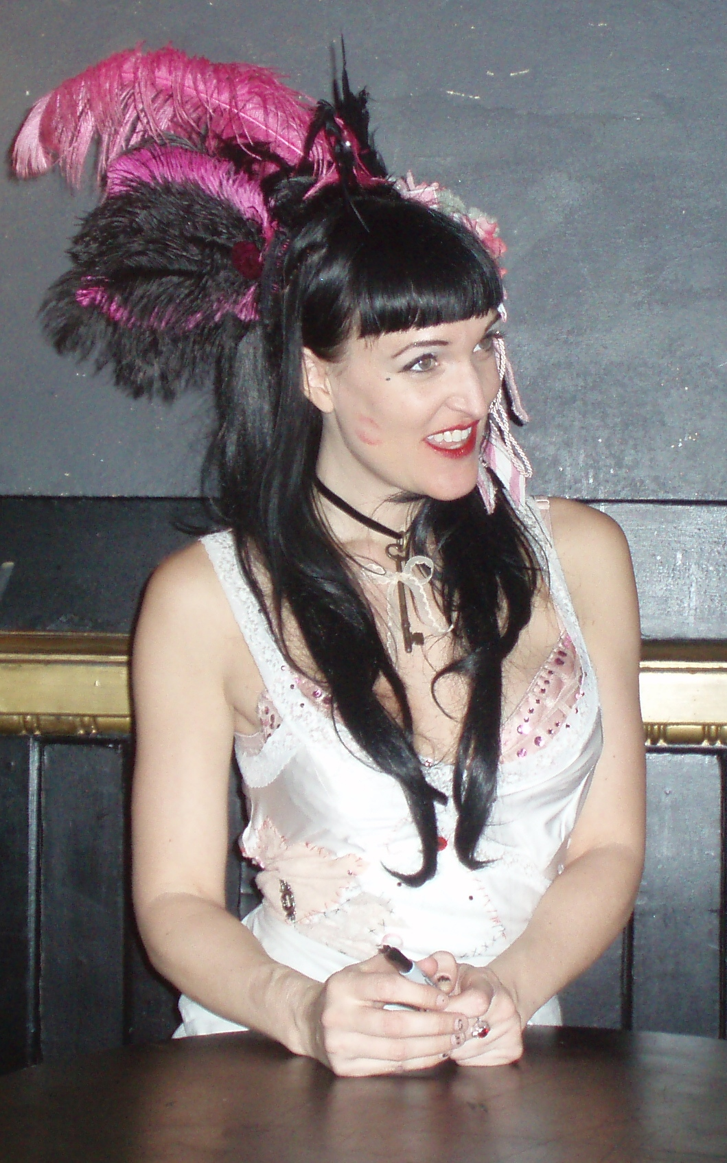 Veronica Varlow after Emilie Autumn show at Sub Scene, Oslo, Norway.